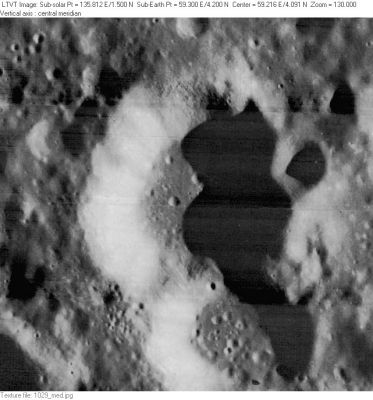 LO-I-029M Cartan is at the north end of a chain of craters including the larger 20-km Apollonius H (below the lower margin of this view).